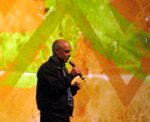 Brian Eno, The Long Now